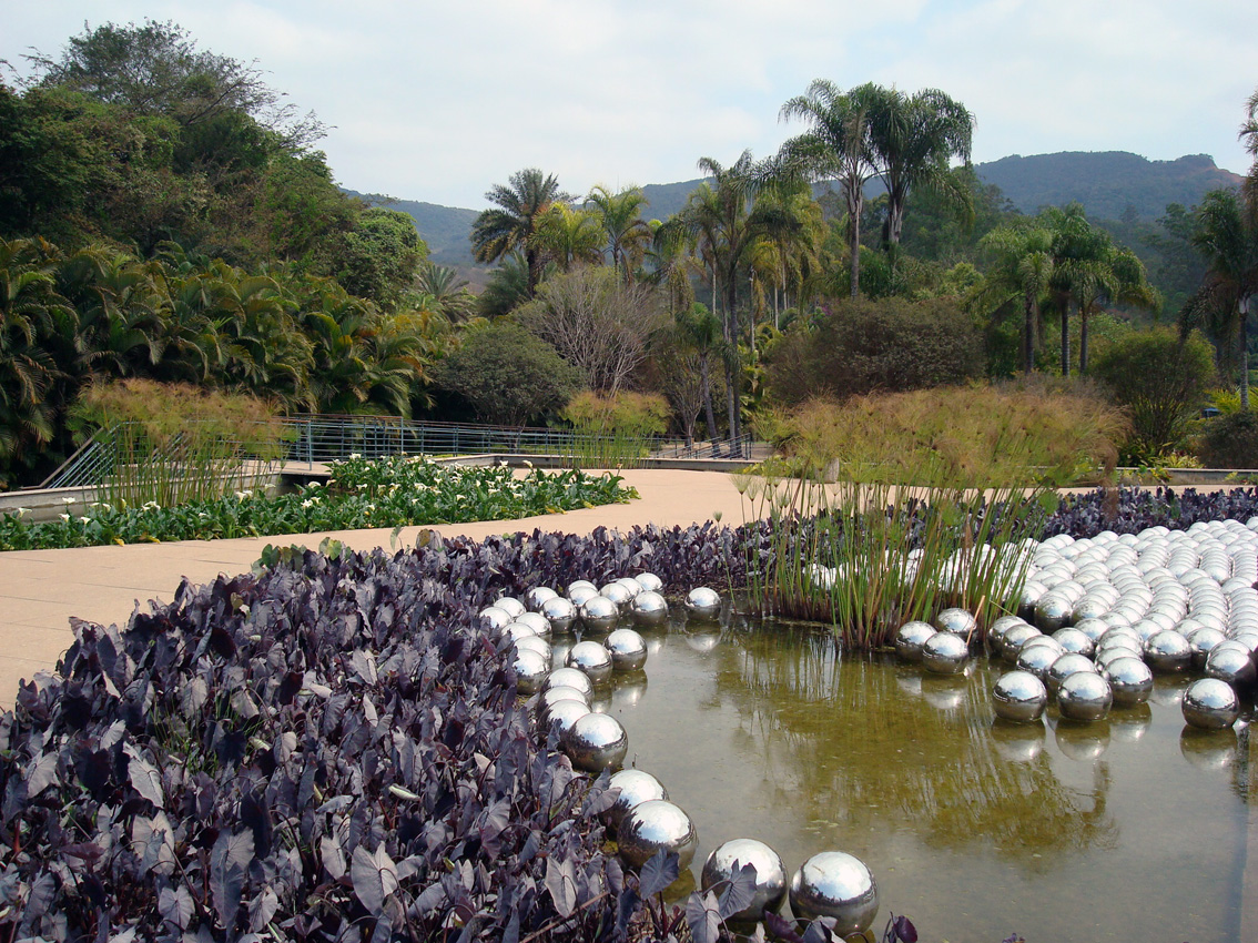 Artwork "Narcissus Garden" by Yayoi Kusama at Inhotim in Brumadinho/Brazil